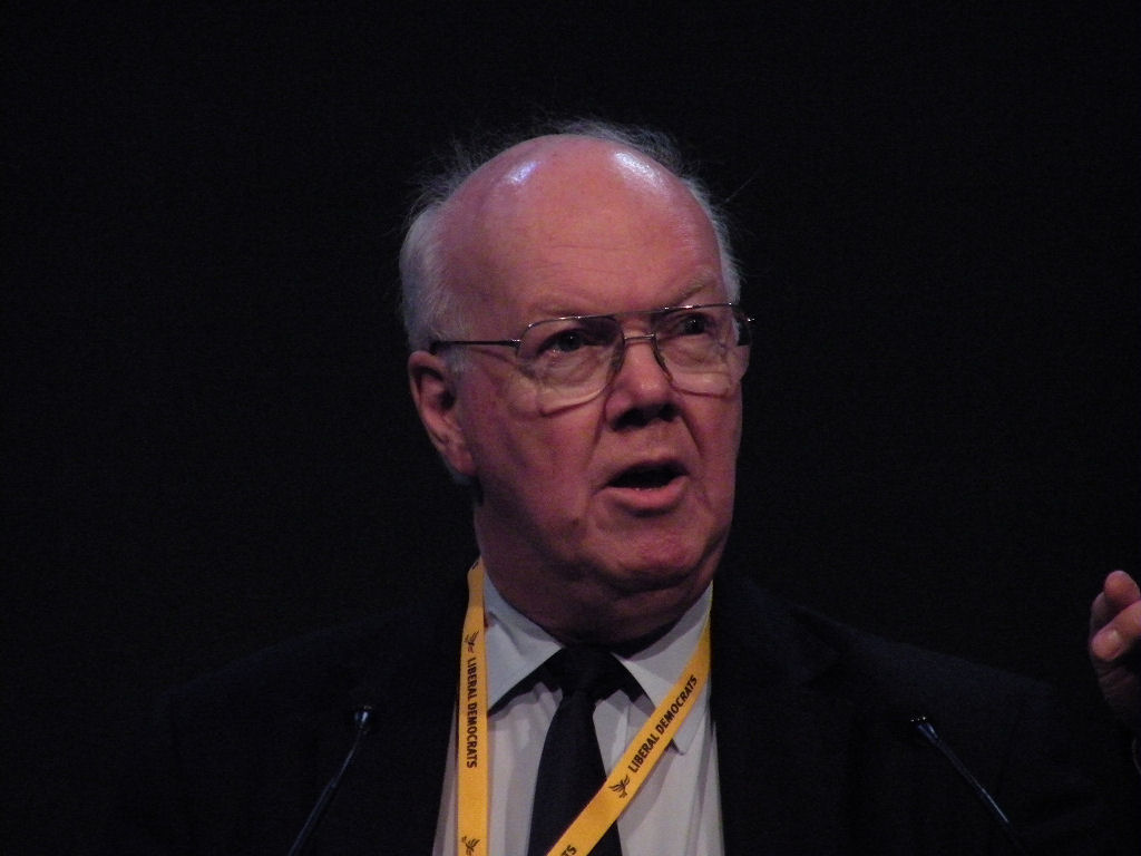 Veteran Liberal poilitician and former MP Michael Meadowcroft addressing a Liberal Democrat conference in the Bournemouth International Centre